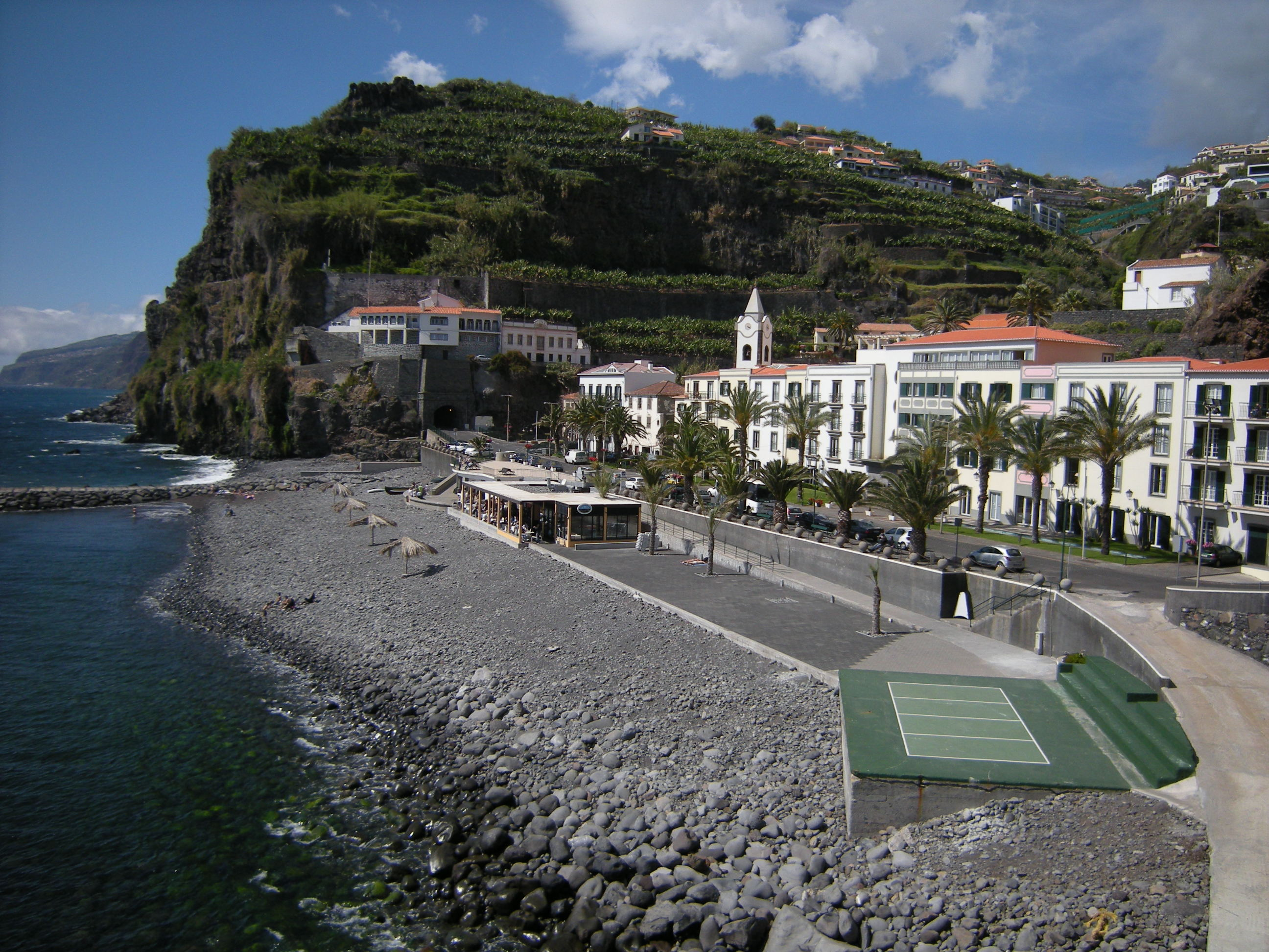 Ponta do Sol Madeira